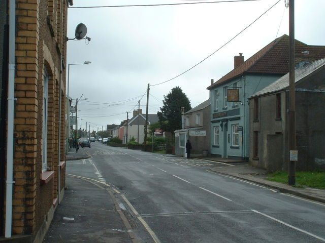 Cefn Cribwr (West) Looking East along Cefn Road towards the village centre